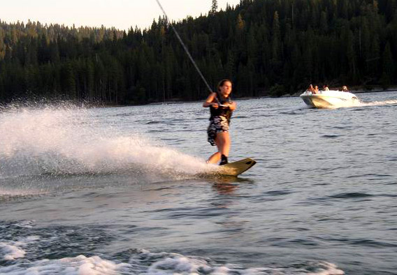 Wakeboarding on Bass Lake. [Photo: Tonya Stumphauzer]